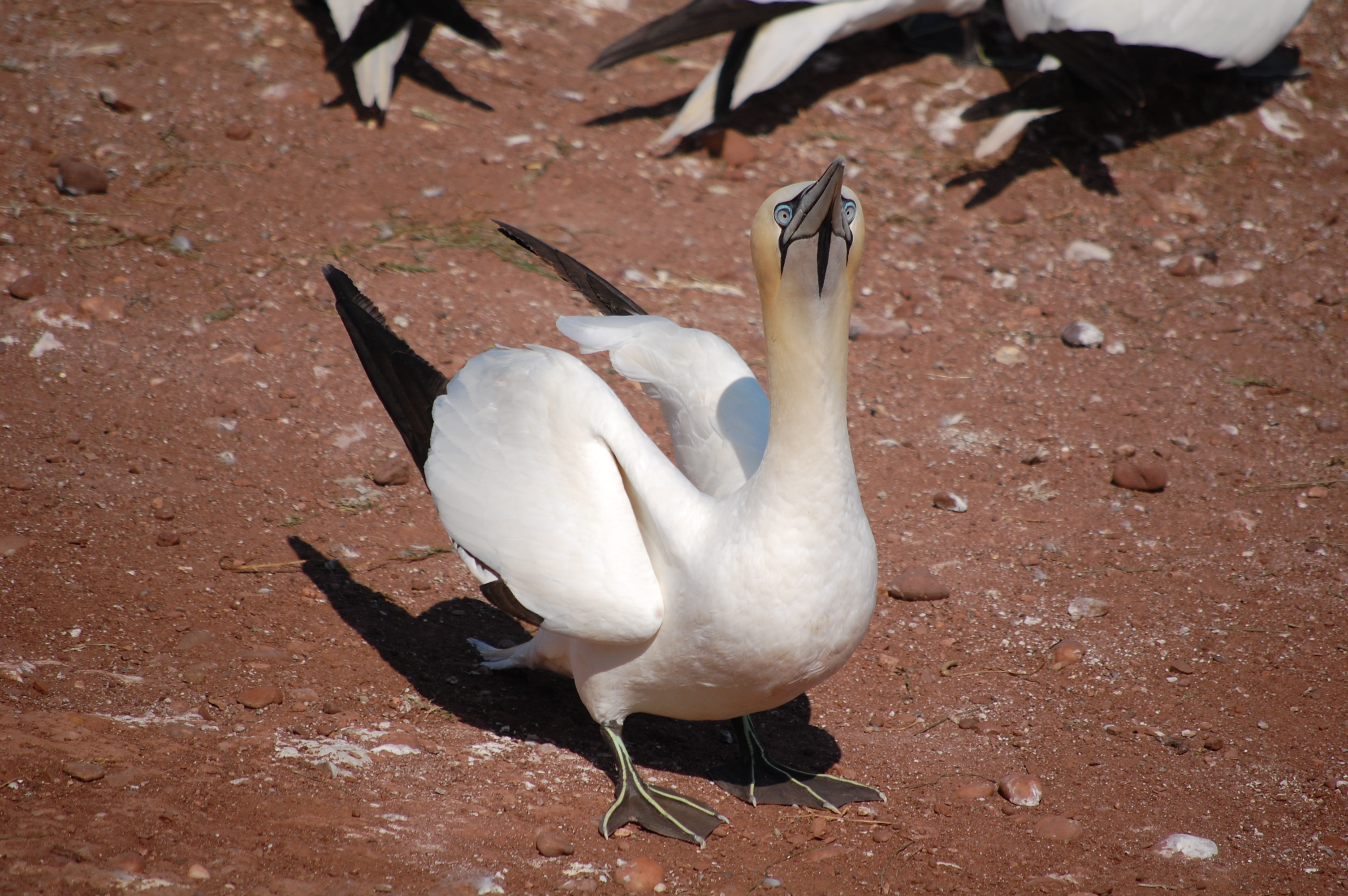 A northern gannet (Morus bassanus) at the large nesting grounds on Bonaventure Island